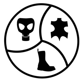 Logo of Leathers. CZ association